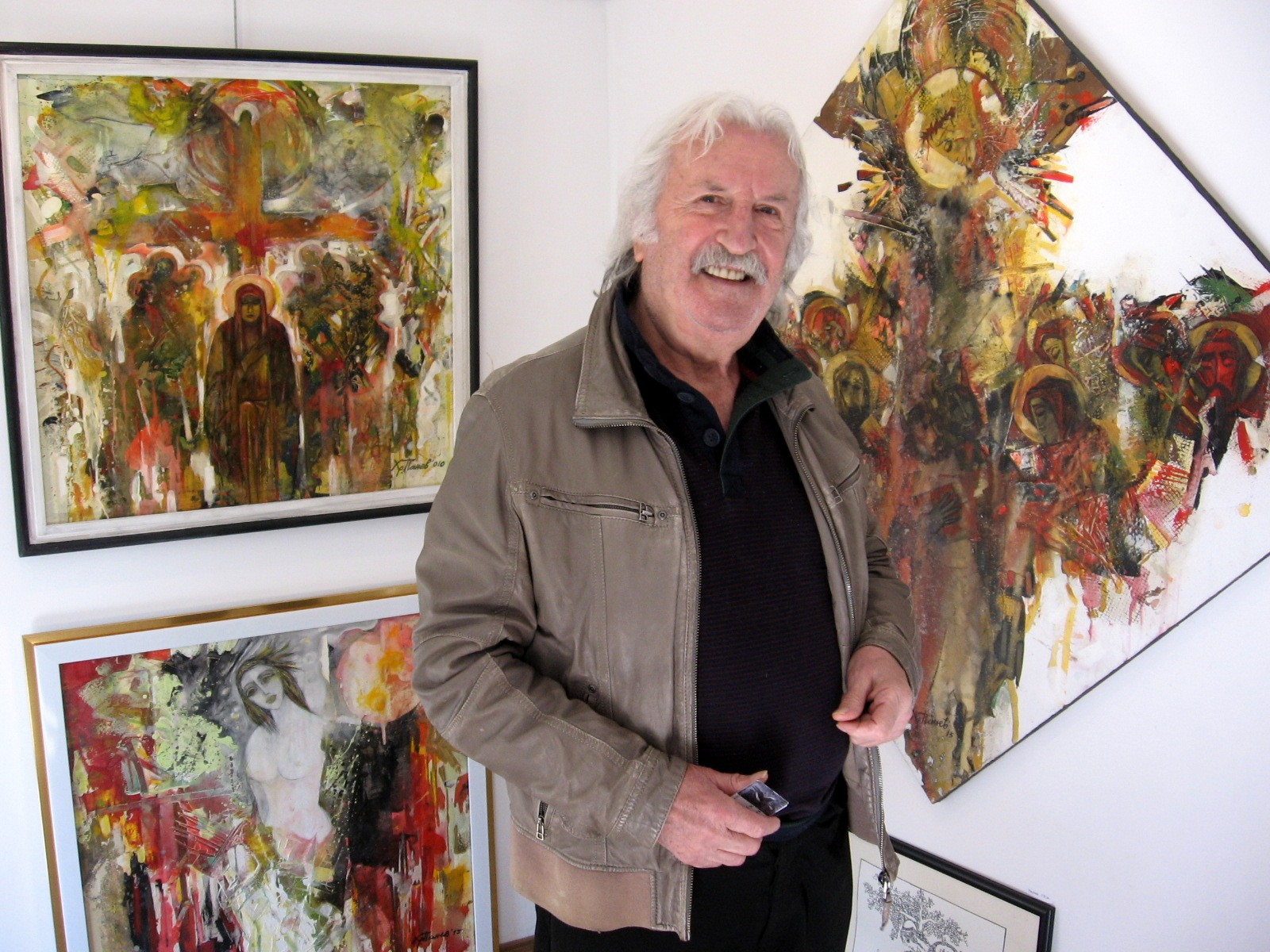 Hristo Panev, Bulgarian artist, in his own gallery in Veliko Tarnovo, 07.04.2018